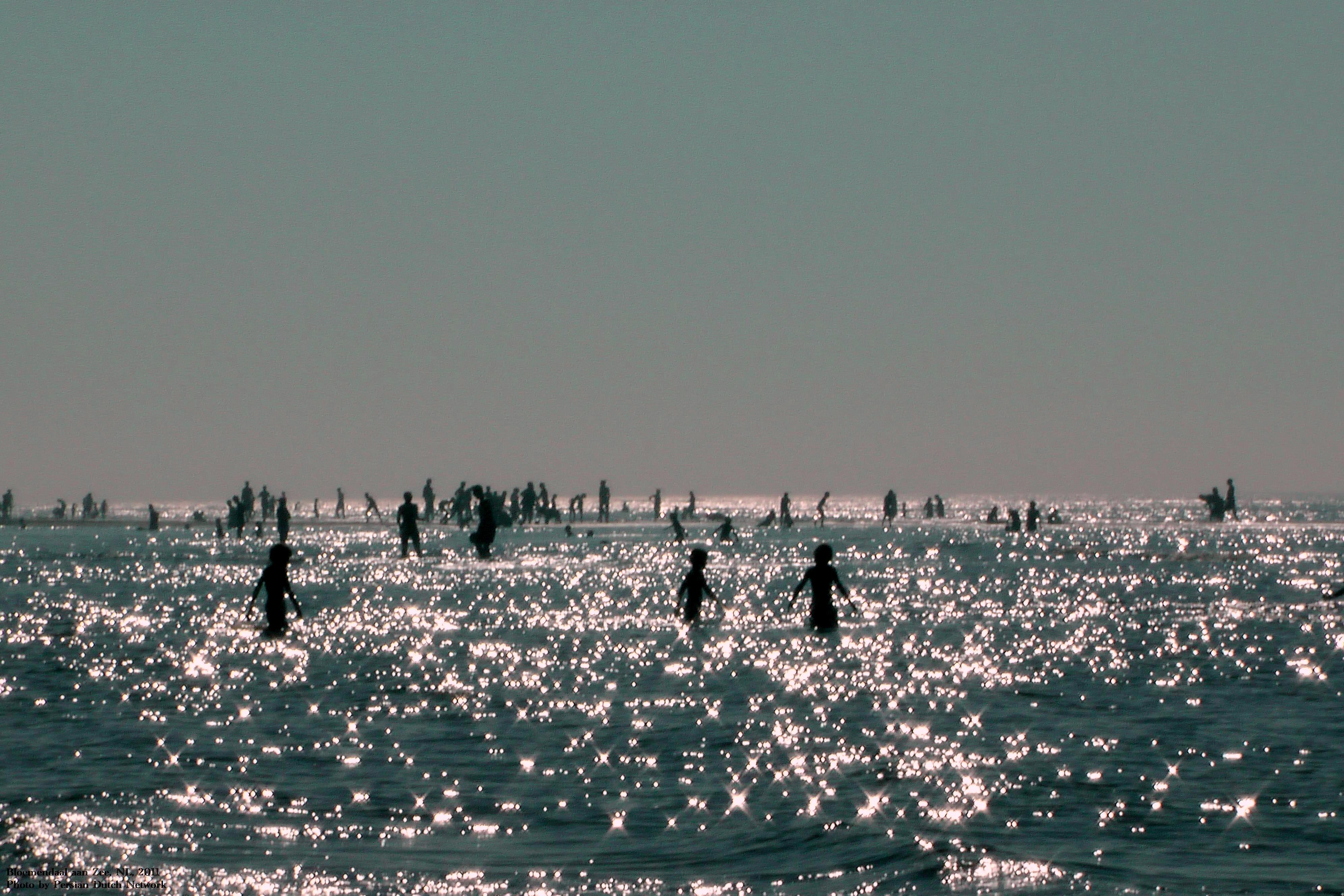 North Sea, Bloemendaal aan Zee, The Netherlands, Oct. 2011; Photo by Pejman Akbarzadeh (Persian Dutch Network)